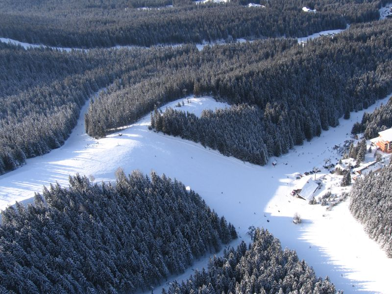 Central part of Jasna ski resort called Koliesko (en. Little Wheel). Valley station of chairlift Koliesko–Luková, mountain station of chairlift Biela púť–Koliesko